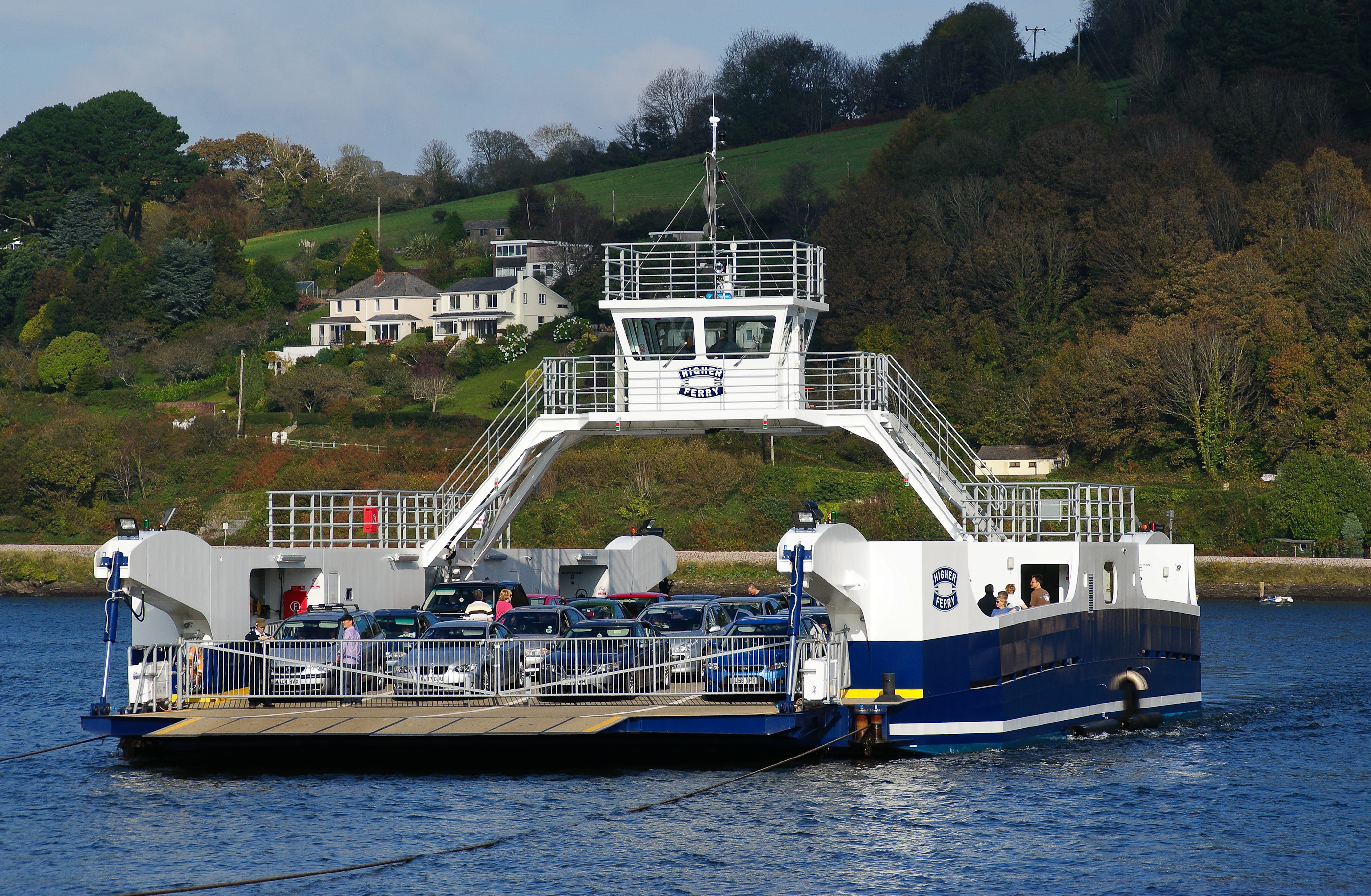 The Higher Ferry at Dartmouth in Devon, UK. This is a self powered floating platform which crosses on fixed cables.